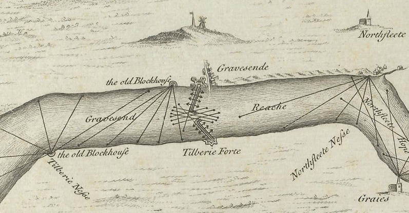 Defences of Gravesend and Tilbury. From the 1588 Thamesis Descriptio map. Reversed: North in the bottom!